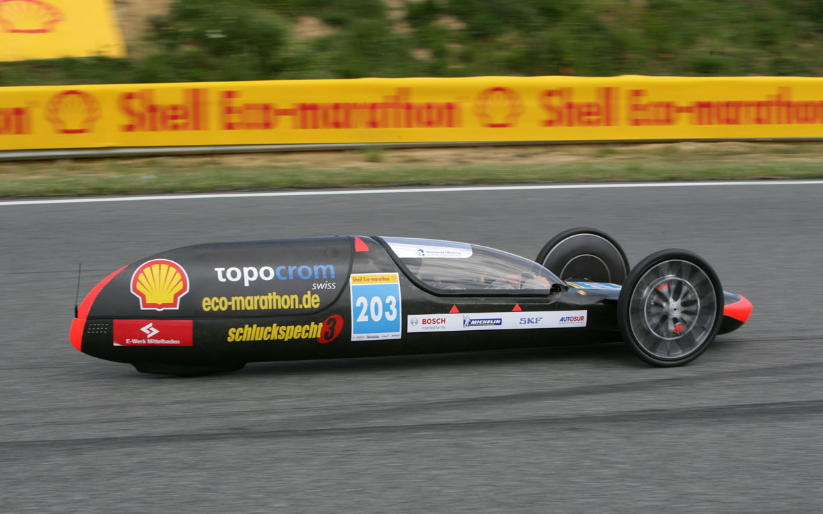 Team Schluckspecht from Hochschule Offenburg at Shell Eco Marathon